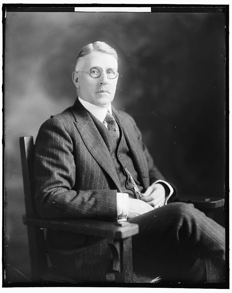 Emmet Montgomery Reily.